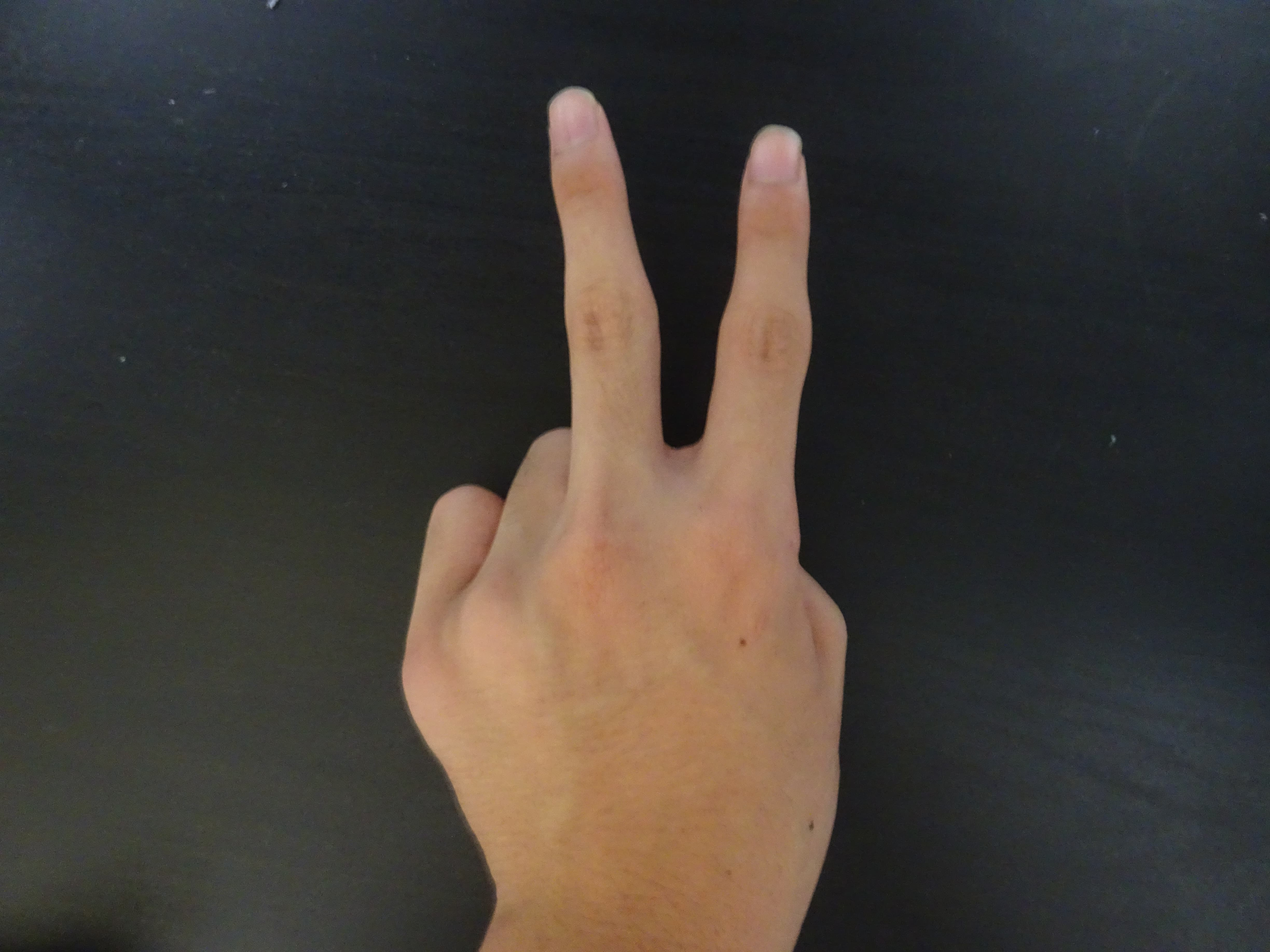 This is a peace sign hand photo.